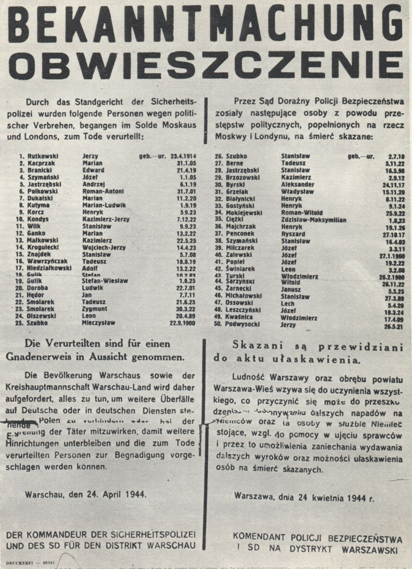 German poster in occupied Poland (dated 24th April 1944), signed by Commandant of SD and Sicherheitspolizei in Warsaw – SS-Standartenführer Ludwig Hahn, announcing death penalty for 50 Poles from Warsaw. Announcement informs that convicts will be treated as the hostages.